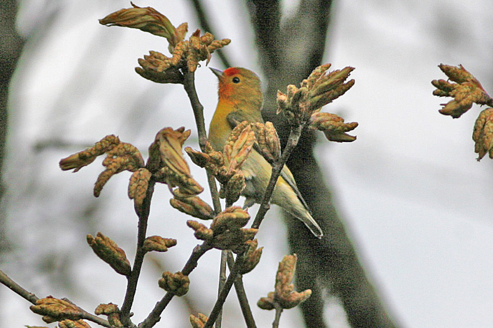 Fire-capped Tit Cephalopyrus flammiceps, between Thimphu and Punaka, Bhutan